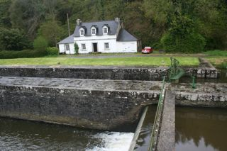 A photograph of the Goariva Lock and the associated Lock Keeper's cottage. It is applicable to